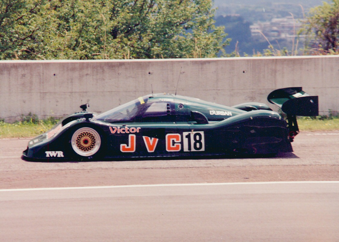 XJR-11 at Fuji 1000KM